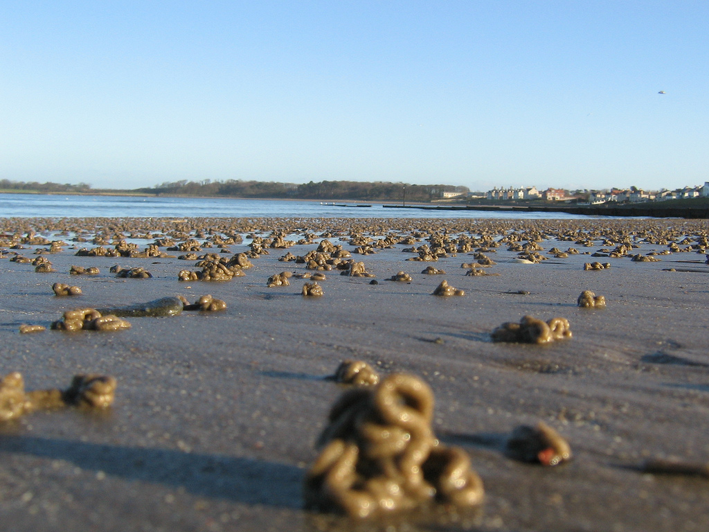 Original photo taken by Nick Veitch on Ballyholme Beach, Bangor, Co.Down, N.Ireland. Shows the casts of many lugworms on the beach.